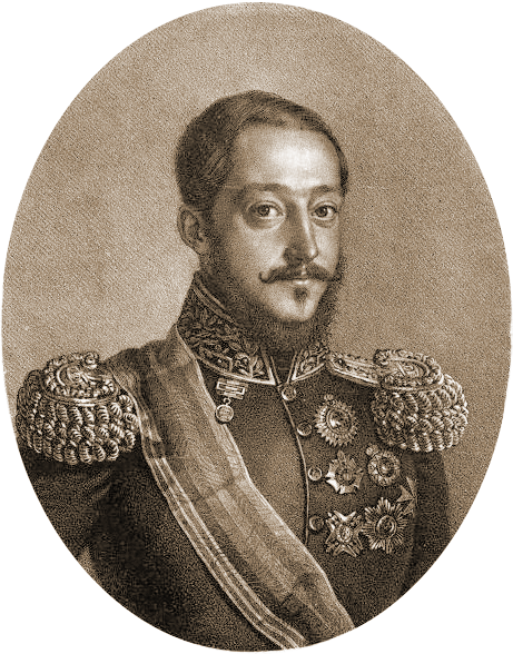 Dom Miguel I, King of Portugal, c.1830.